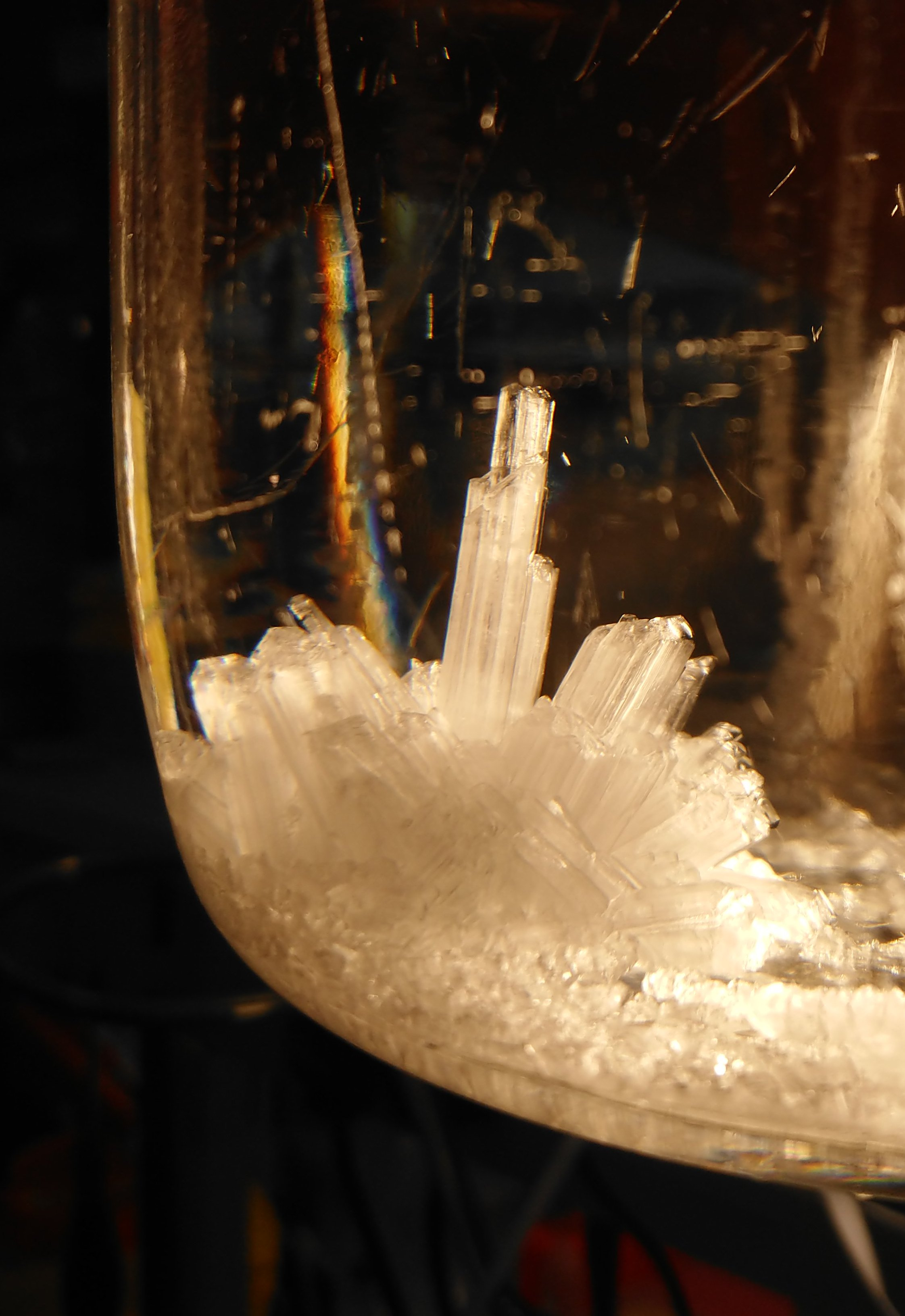 4.2M Ammonium Sulfate solution in double-distilled water was prepared at 20C, and then stored at 4C for 2 days.